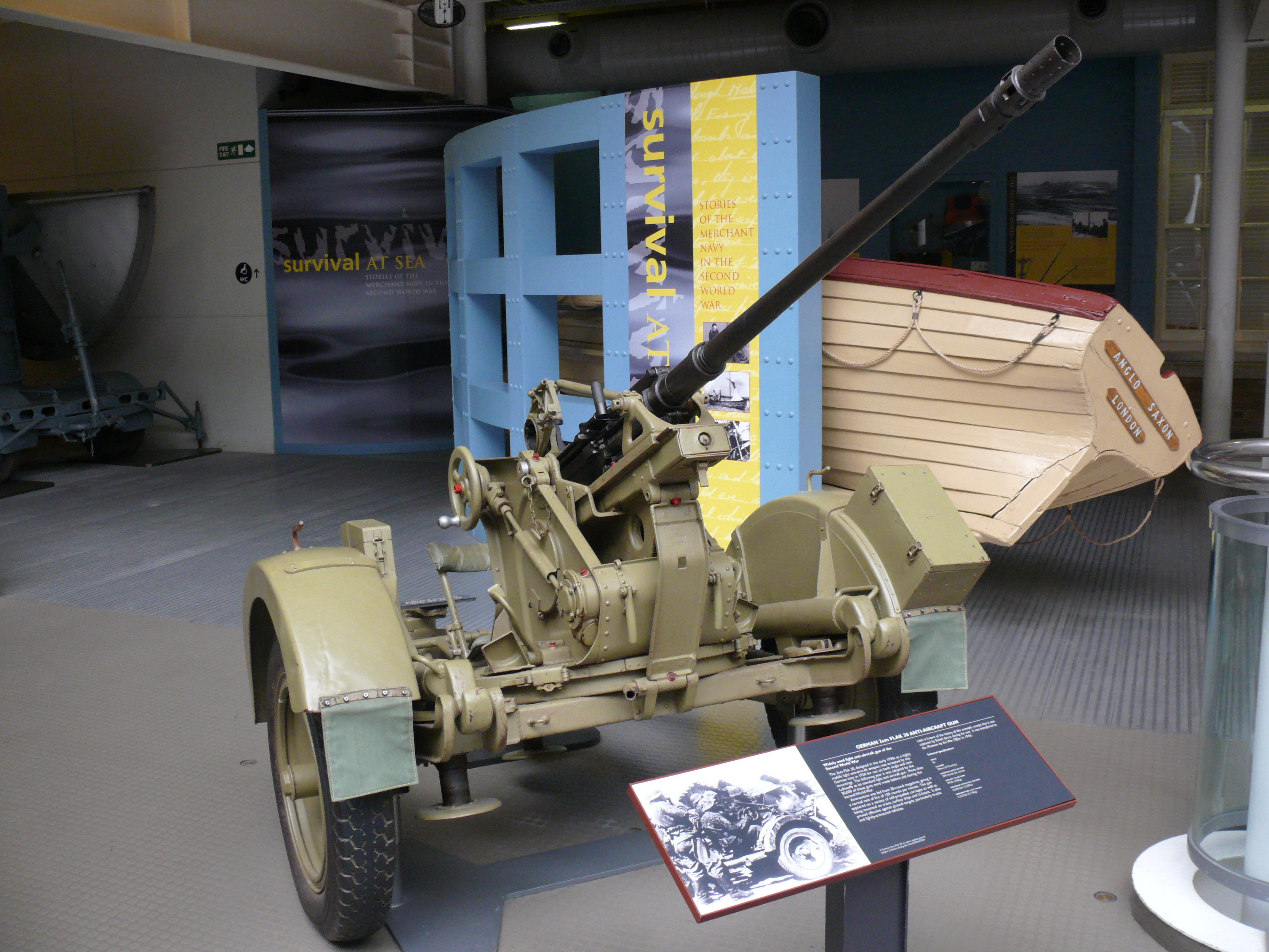 German 2 cm Flak 30 light anti-aircraft gun, World War II.